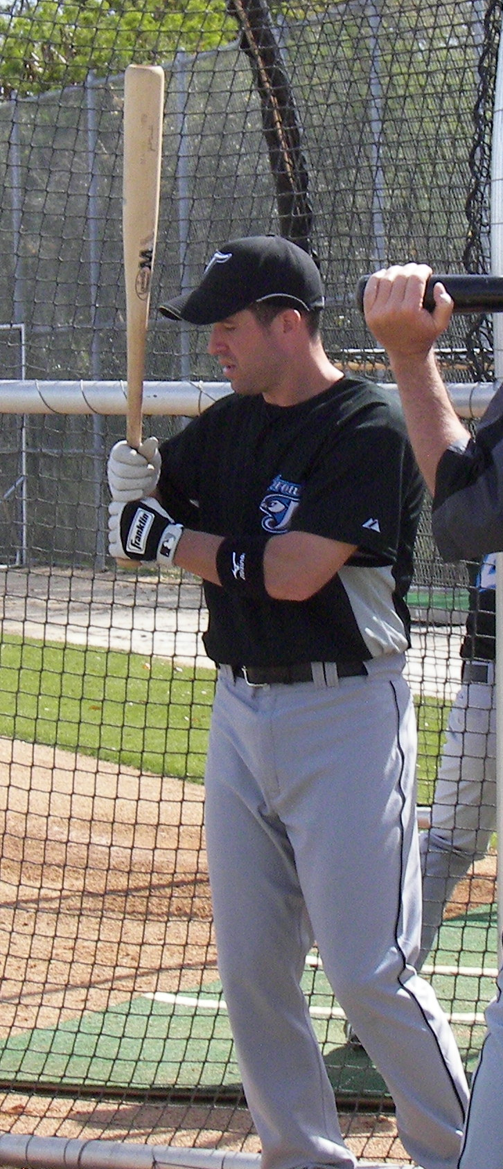 Toronto Blue Jays shortstop John McDonald during a spring training workout at the Blue Jays' spring training complex in Dunedin, Florida.